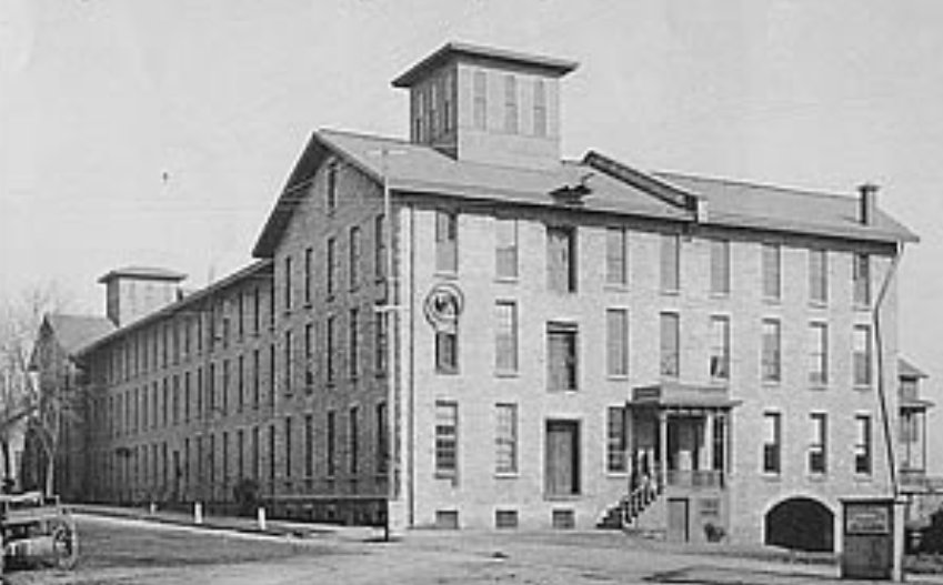 Holly Manufacturing Company, circa 1880